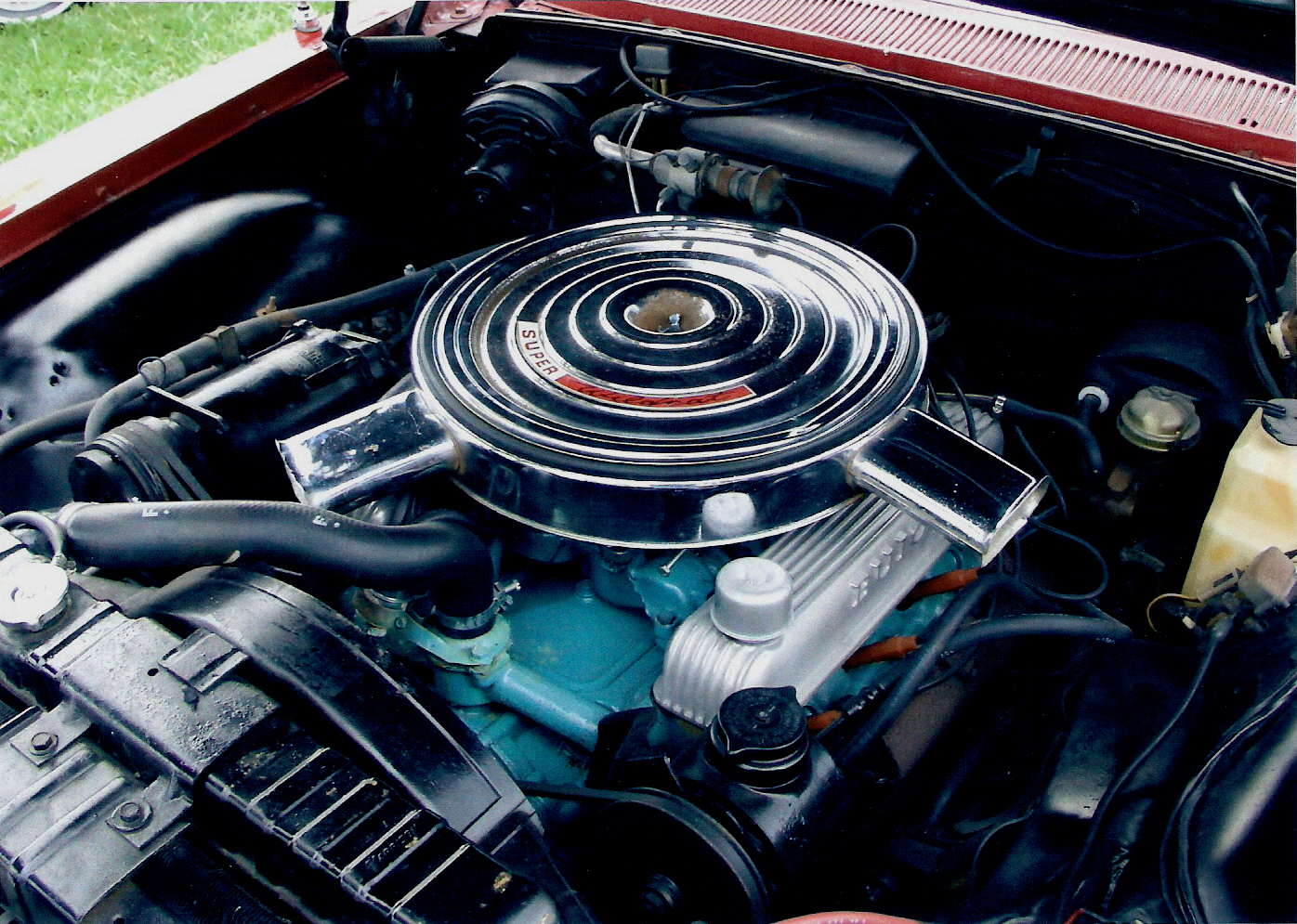 Buick Wildcat, "Super Wildcat" version engine. Dual-quad 425 CID V8.